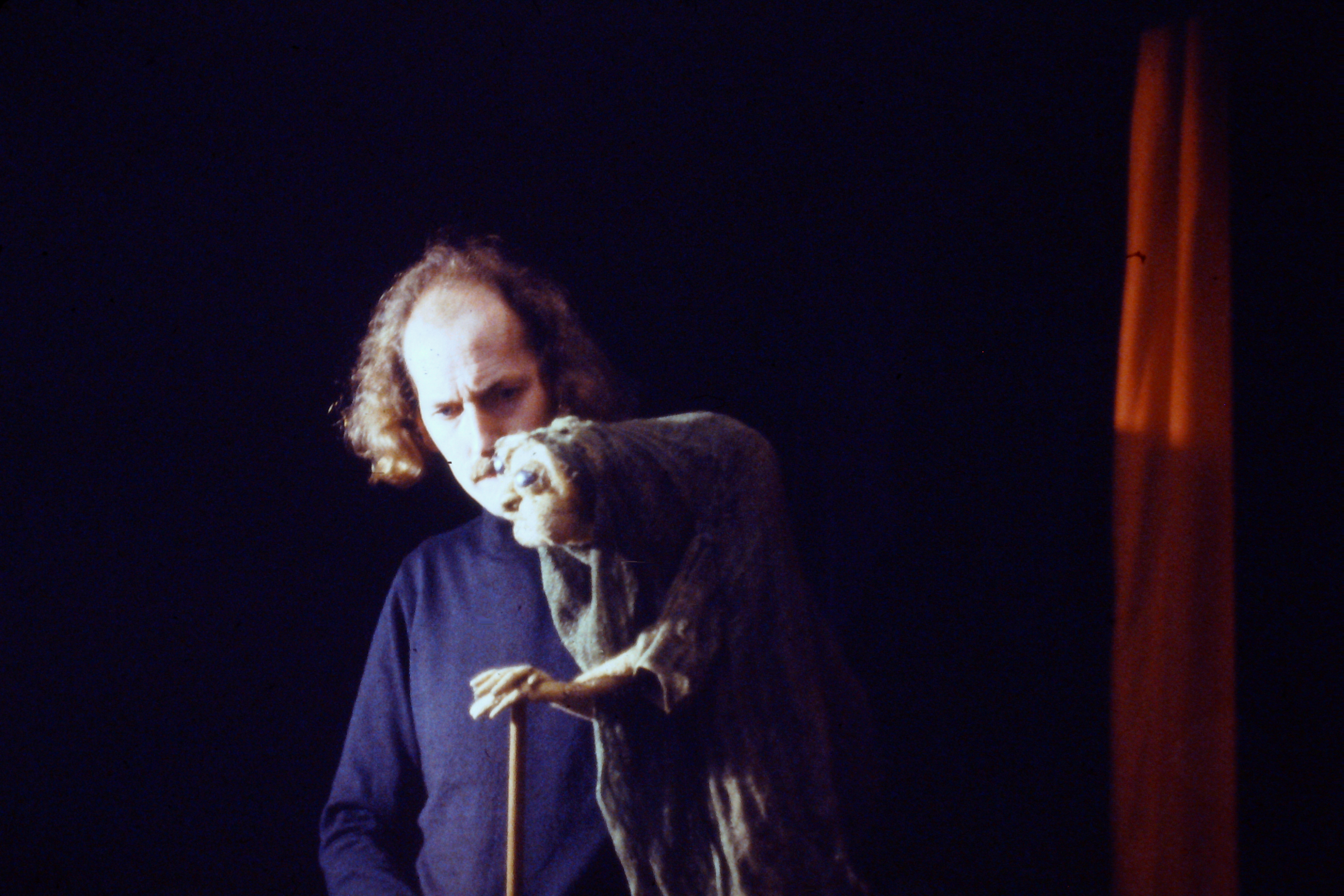 Henk Boerwinkel, figuren theater triangle